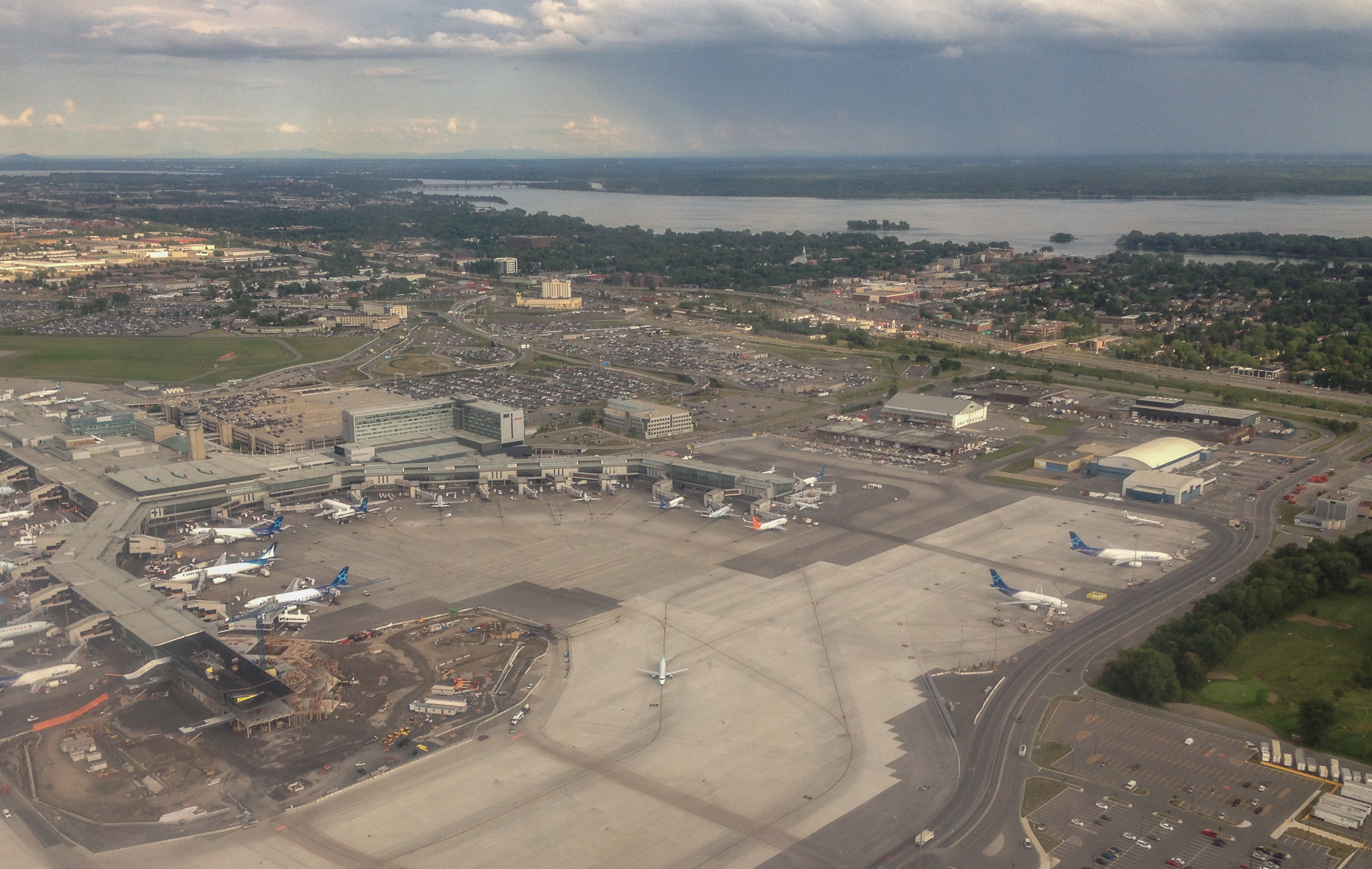 Takeoff from RWY 24R, YUL-MSP